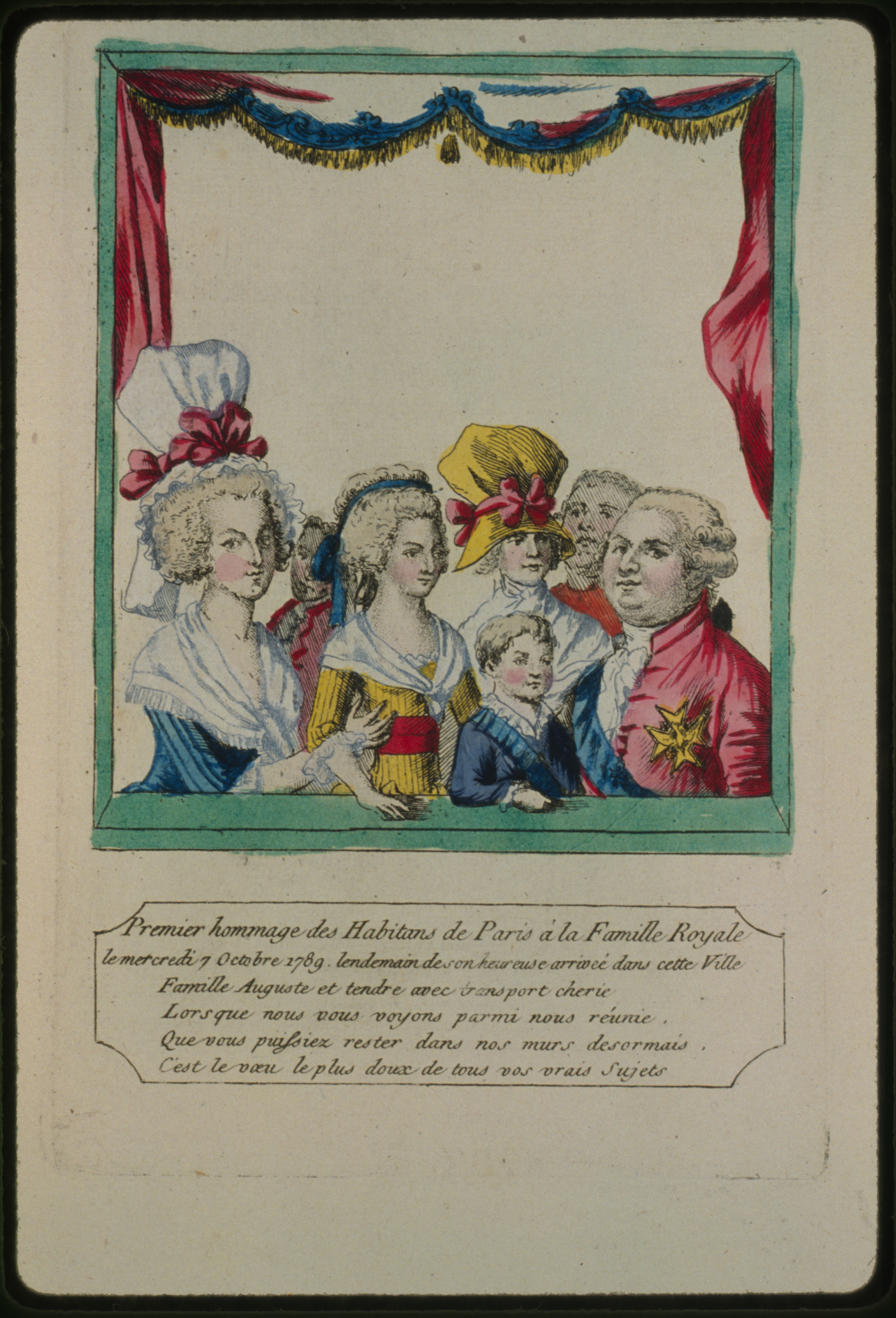 The royal family--Louis XVI, Marie Antoinette, and their children.